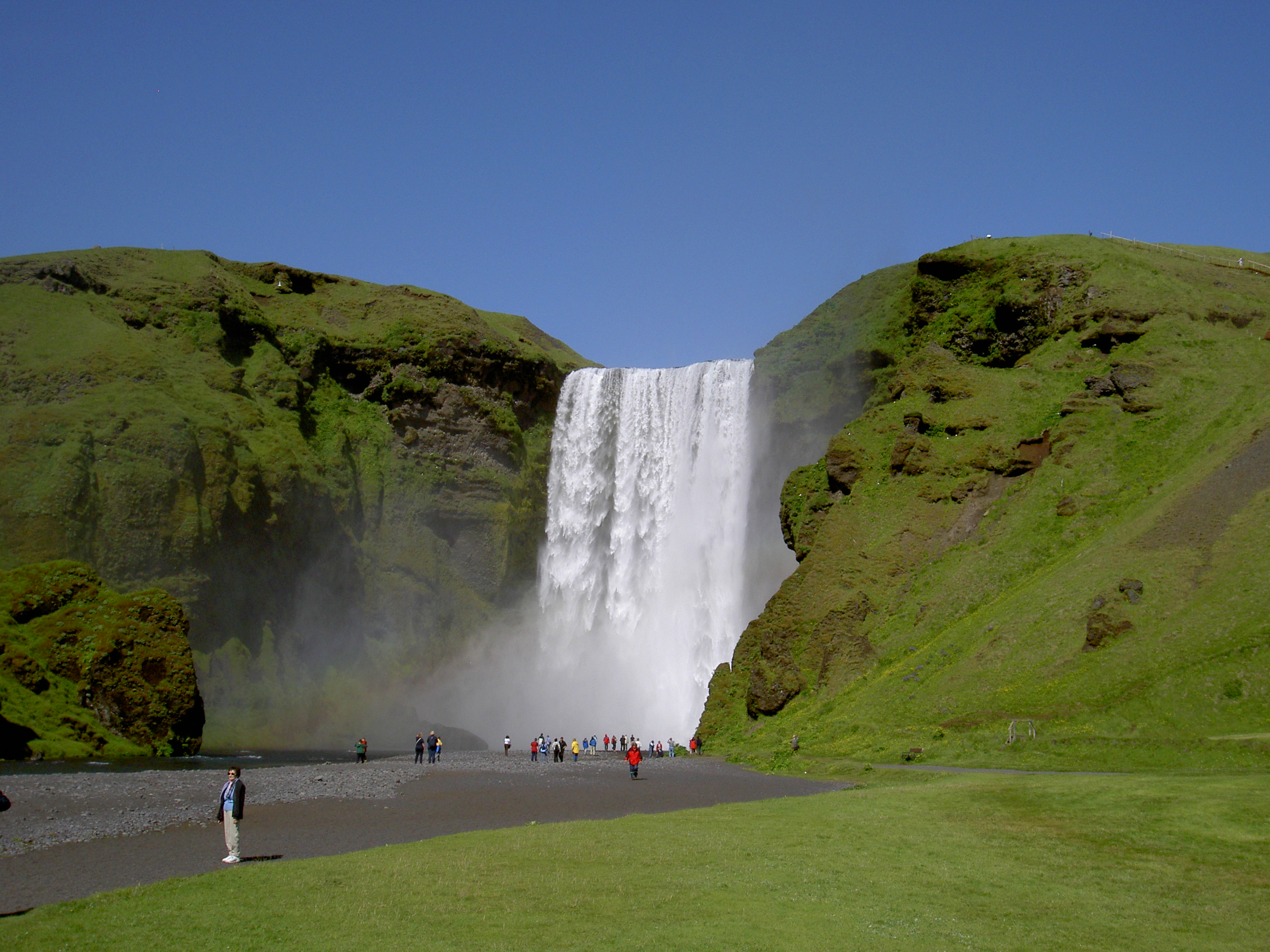 Picture of the Skogafoss waterfall on Iceland from below. Taken 14.07.2005